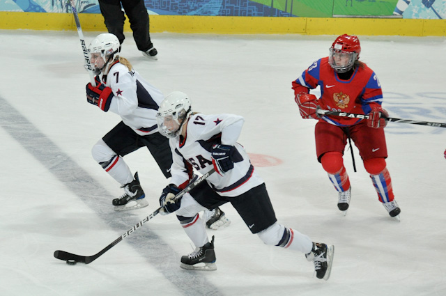 Women's Hockey, USA vs Russia, 2010 Vancouver Winter Olympics, Feb. 16, 2010; #7 Monique Lamoureux and her sister #17 Jocelyne Lamoureux